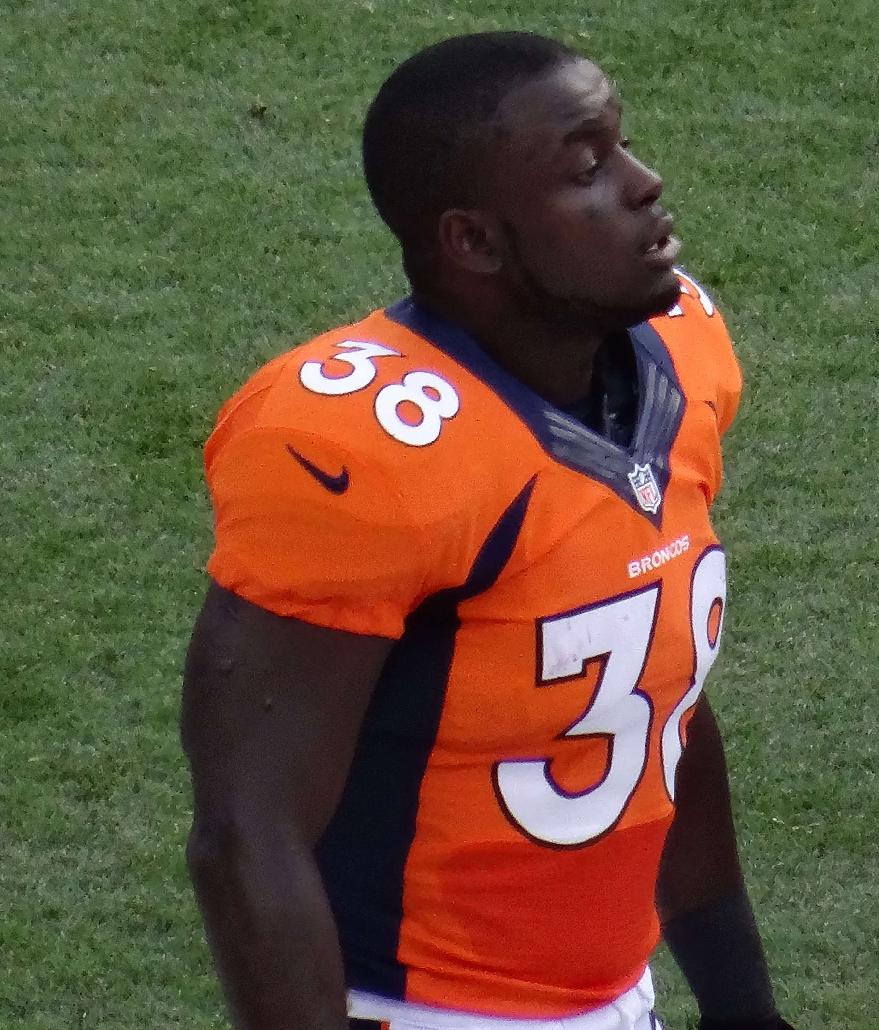 Montee Ball, a player on the National Football League.